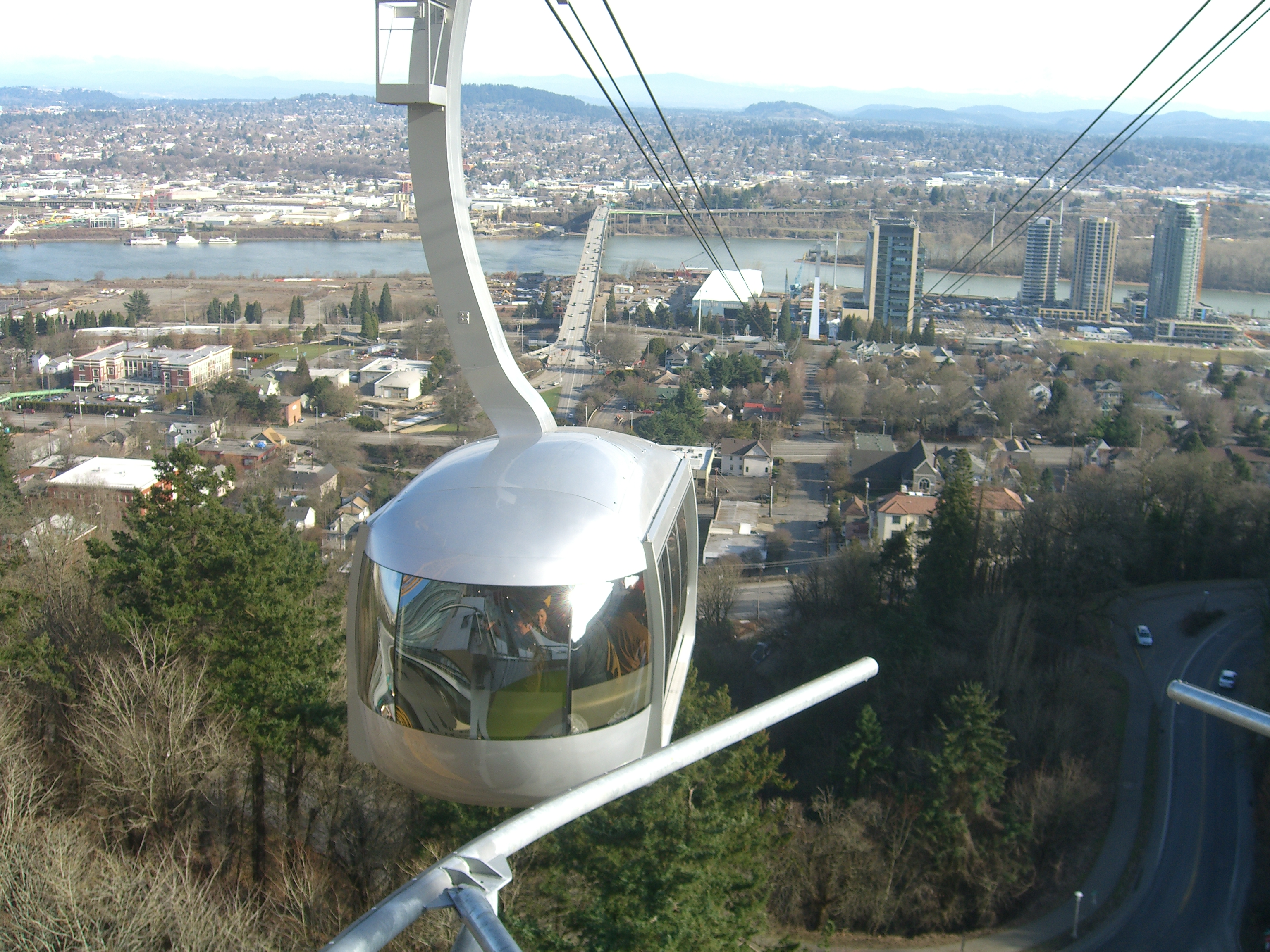 The Portland Aerial Tram car "Jean" descends from the Marquam Hill station. The Ross Island Bridge is visible in the background. Created by User:EngineerScotty, Jan 27 2007